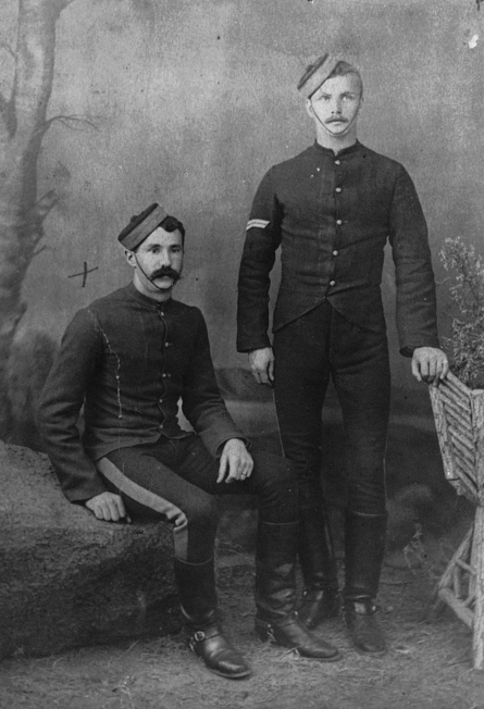 Photograph, Raymond Panet & friend, North West Mounted Police, about 1885, Anonymous, Silver salts on paper mounted on card - Albumen process - 17 x 12 cm